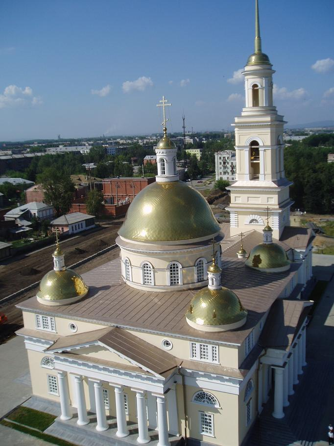 Nevyansk: Cathedral of oldbelievers as seen from inclined tower (2005)